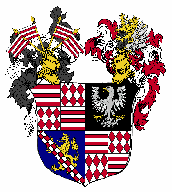 Coats of arms of the German noble family of Mansfeld since 1481